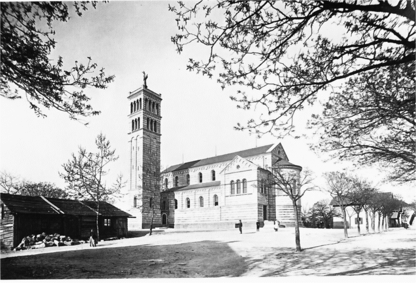 The church Madonna del Mare was built for the sailors of the Austro-Hungarian Navy in Pula. (Today's Gospe od Mora)